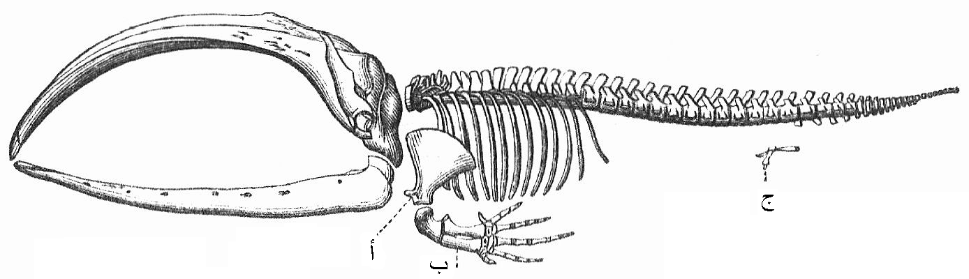 Skelett of a baleen whale (a - omoplate, b - foreleg, c - rest of hind leg)